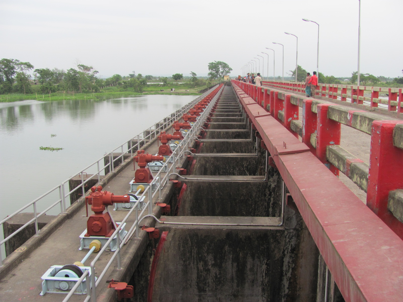 বঙ্গোপসাগরের উপকূলে চিত্তাকর্ষক নৈসর্গিক শোভা ও মনোমুগ্ধকর অসংখ্য দৃশ্য বিদ্যমান। ২০০ কোটি টাকা ব্যয়ে ১৯৮৭ সালে নির্মিত মুহুরী সেচ প্রকল্পের ৪০ গেট বিশিষ্ট রেগুলেটর ও ক্লোজার ড্যামটি দেখতেও আকর্ষণীয়। এছাড়া নদীর পাড়ে সবুজ বনানী ঘেরা মায়াবী পরিবেশ। শীতকালে অতিথি পাখির আগমন ও তাদের কলকাকলী যে কাউকে মুগ্ধ করবে। নদীতে নৌকার সারিবদ্ধ হয়ে মাছ ধরা ও নৌকা ভ্রমণের সুযোগ ভ্রমণ পিয়াসী মানুষদের আকৃষ্ট করে। প্রতিবছর শীতের মৌসুমে বহু দেশি-বিদেশি পর্যটক ও পিকনিক পার্টির আগমন ঘটে এখানে।